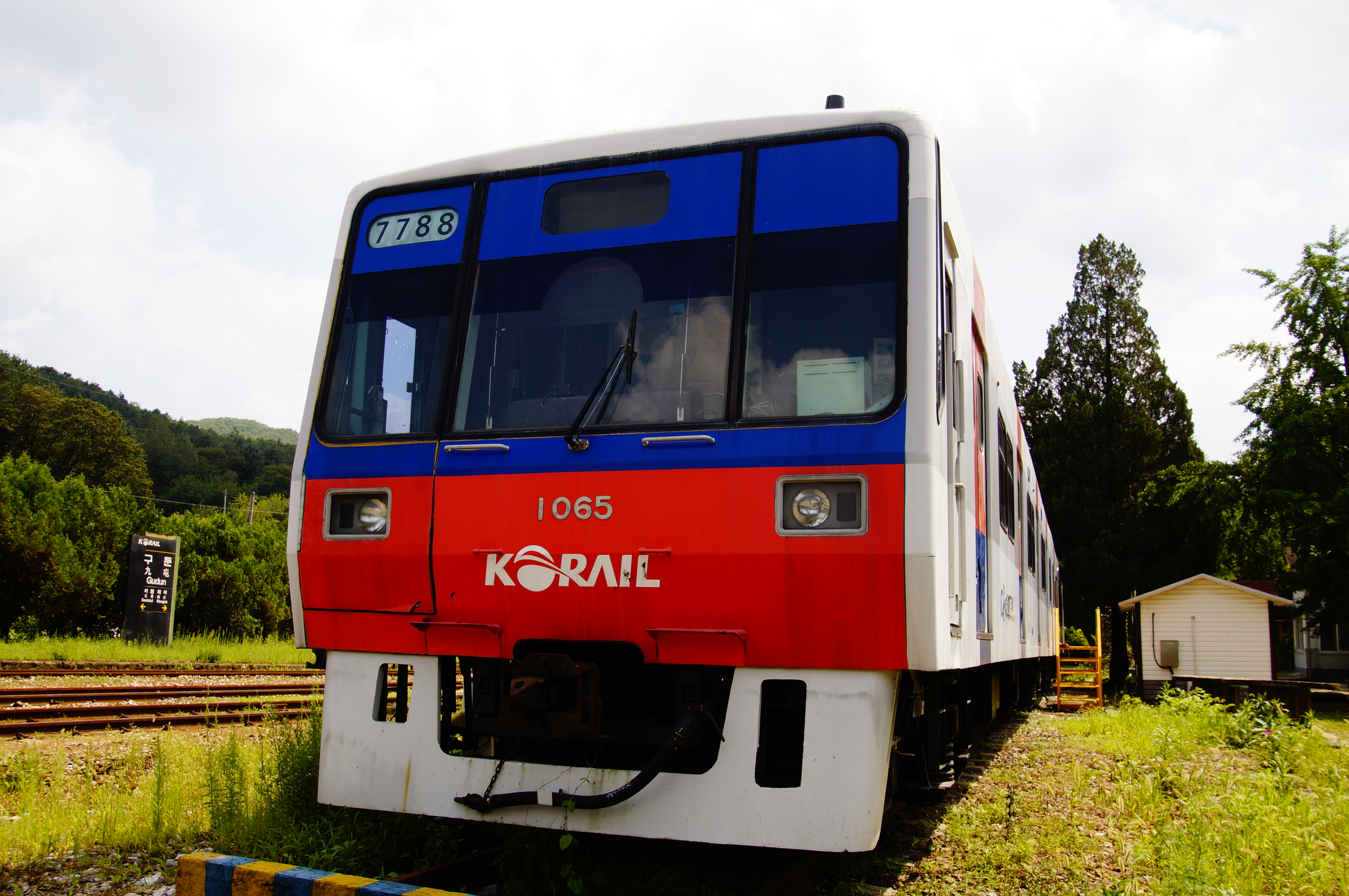 Korail Class 1000 car 1065 at the old Gudun Station, now used as a training center.